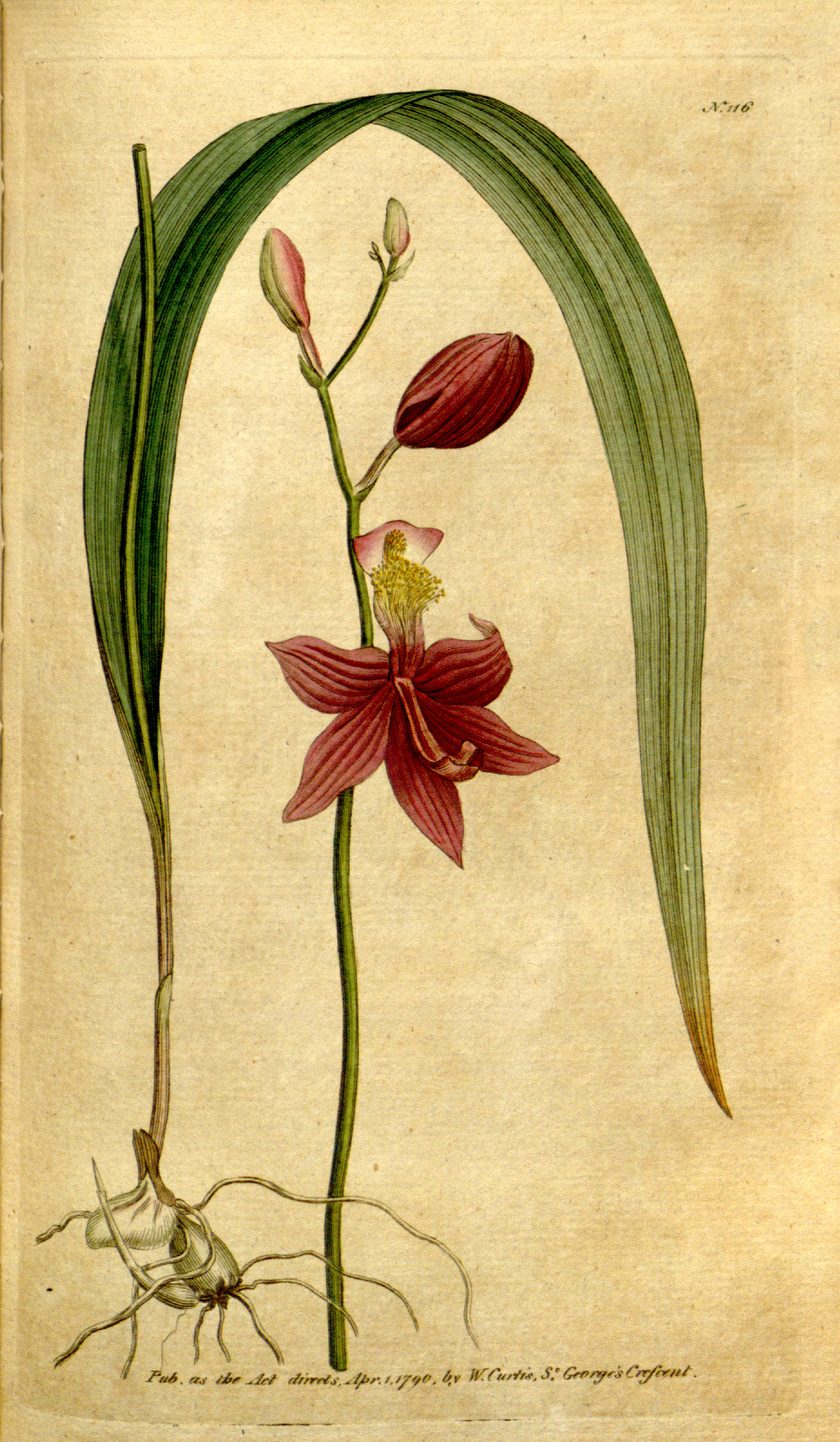 This is a plate from The Botanical Magazine, Volume 4.